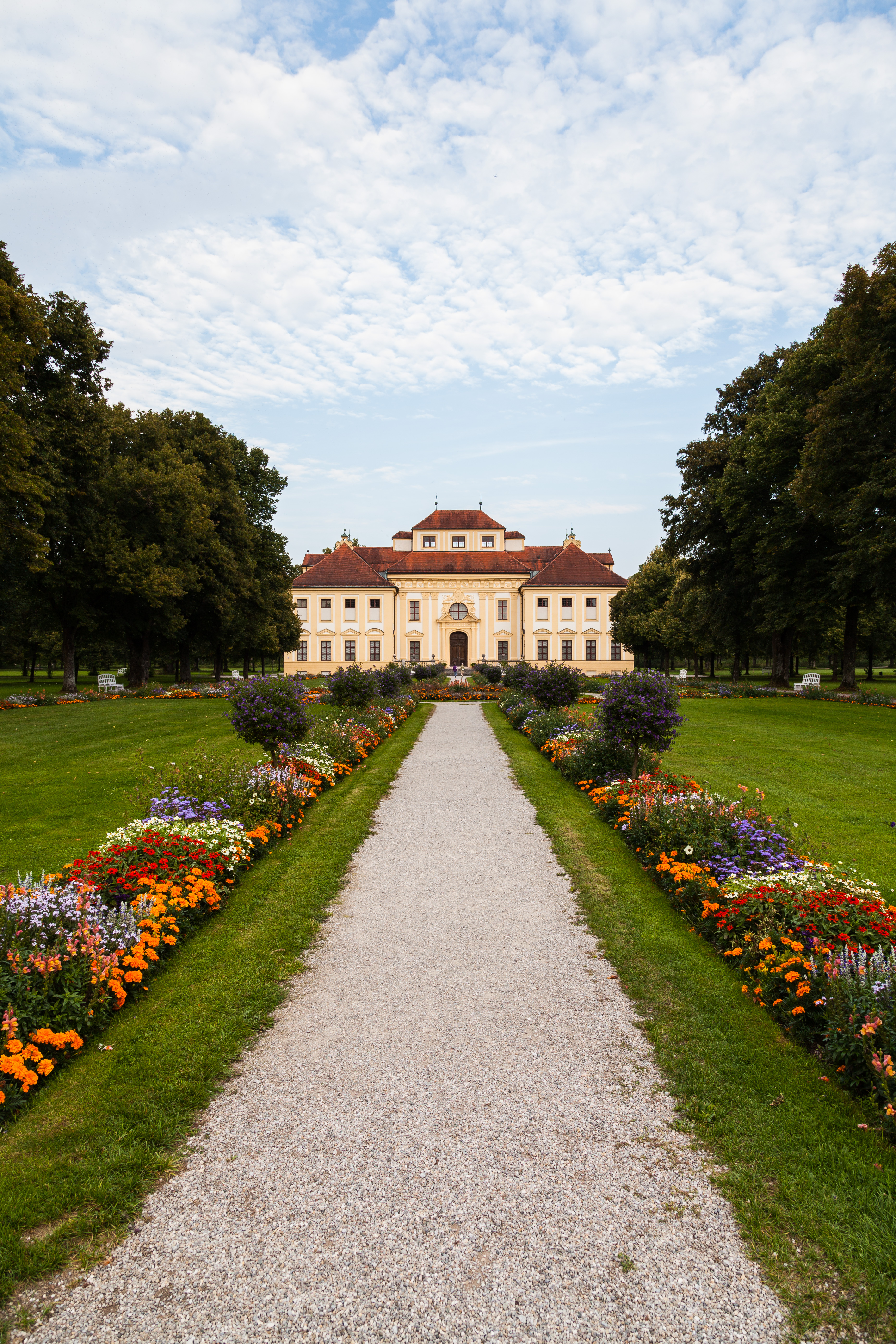 New Schleissheim Palace, Oberschleissheim, Germany This is a photograph of an architectural monument.